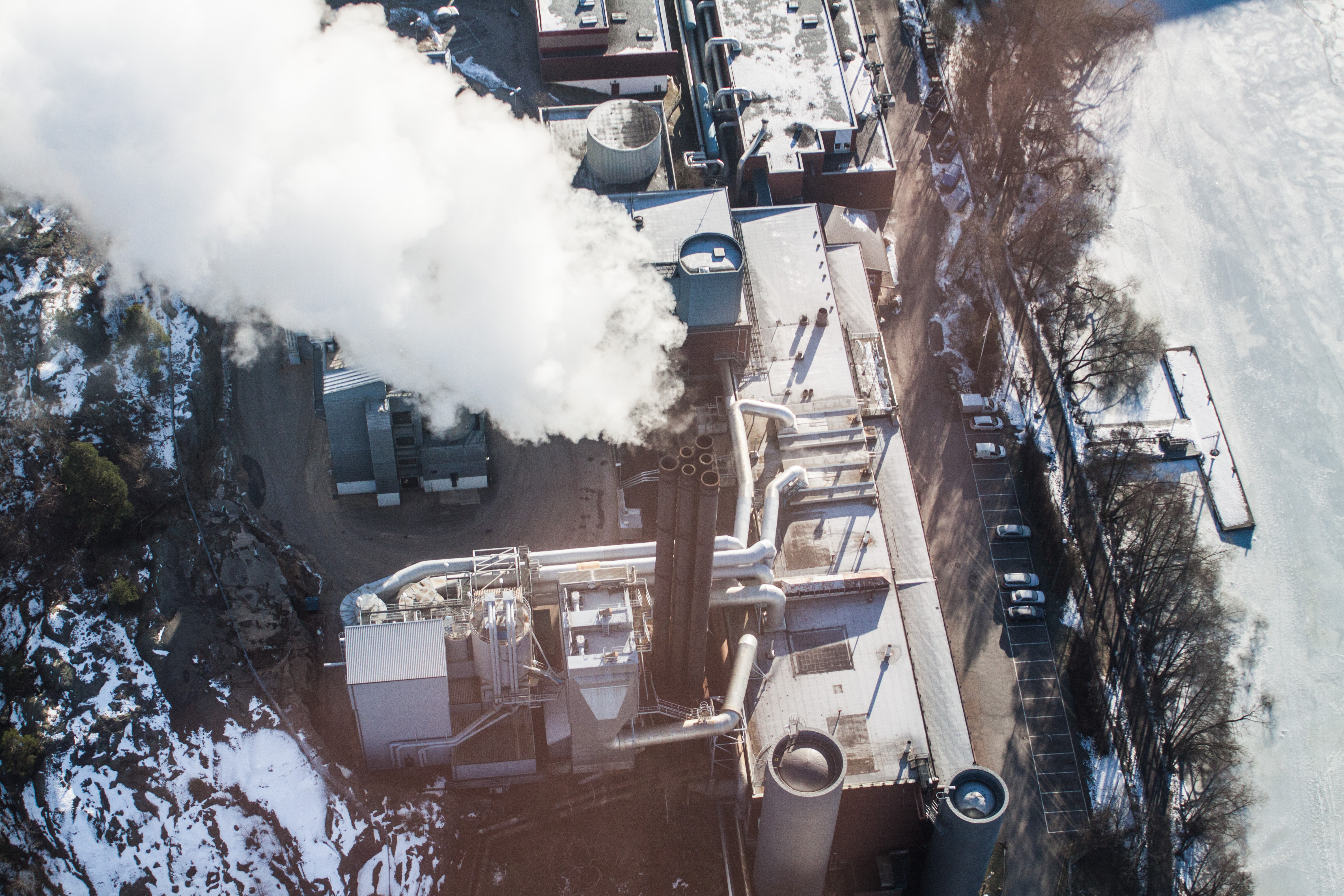 Aerial photo of Norrenergi's heat pump and pellet plant in Solna, Sweden